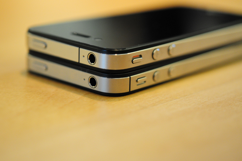 iPhone 4 comparion to the iPhone 4S.